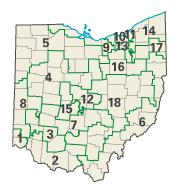 Image adapted from US fed gov't source